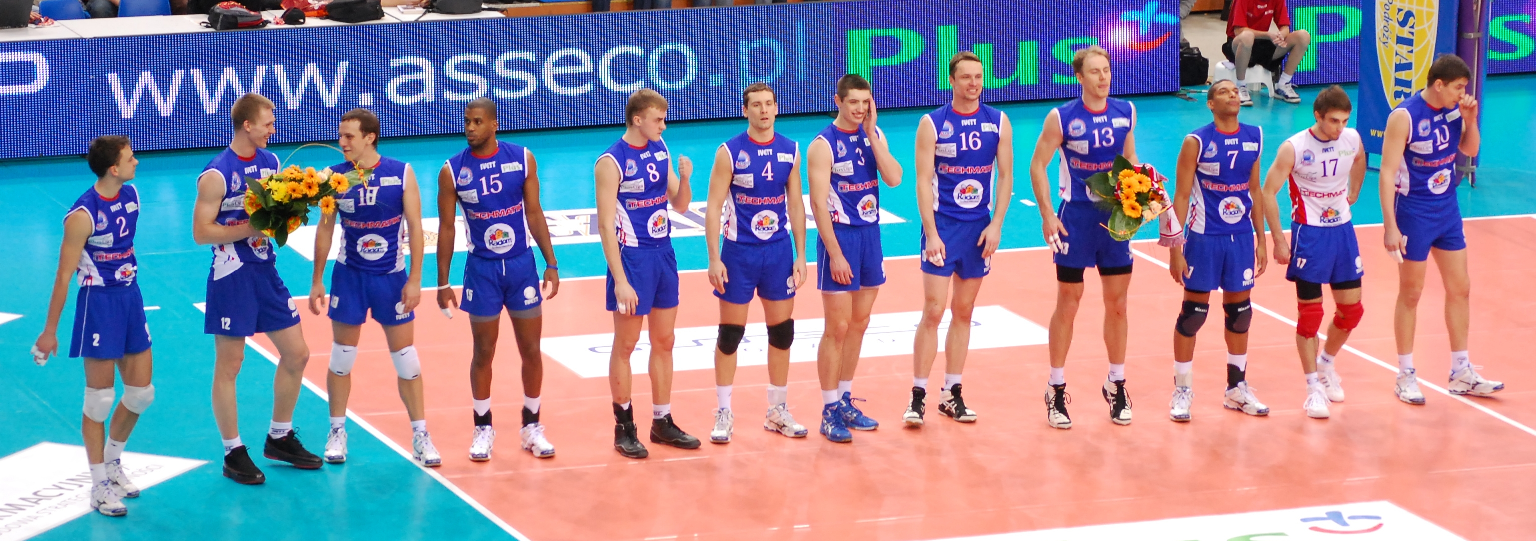 Jadar Radom team before match with Asseco Resovia Rzeszow in Podpromie Hall.